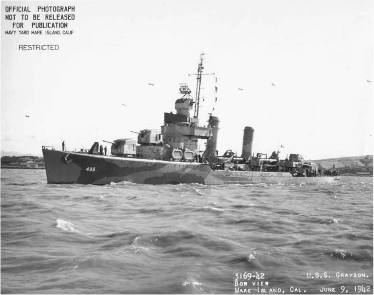 USS Grayson (DD-435) mit Tarnanstrich